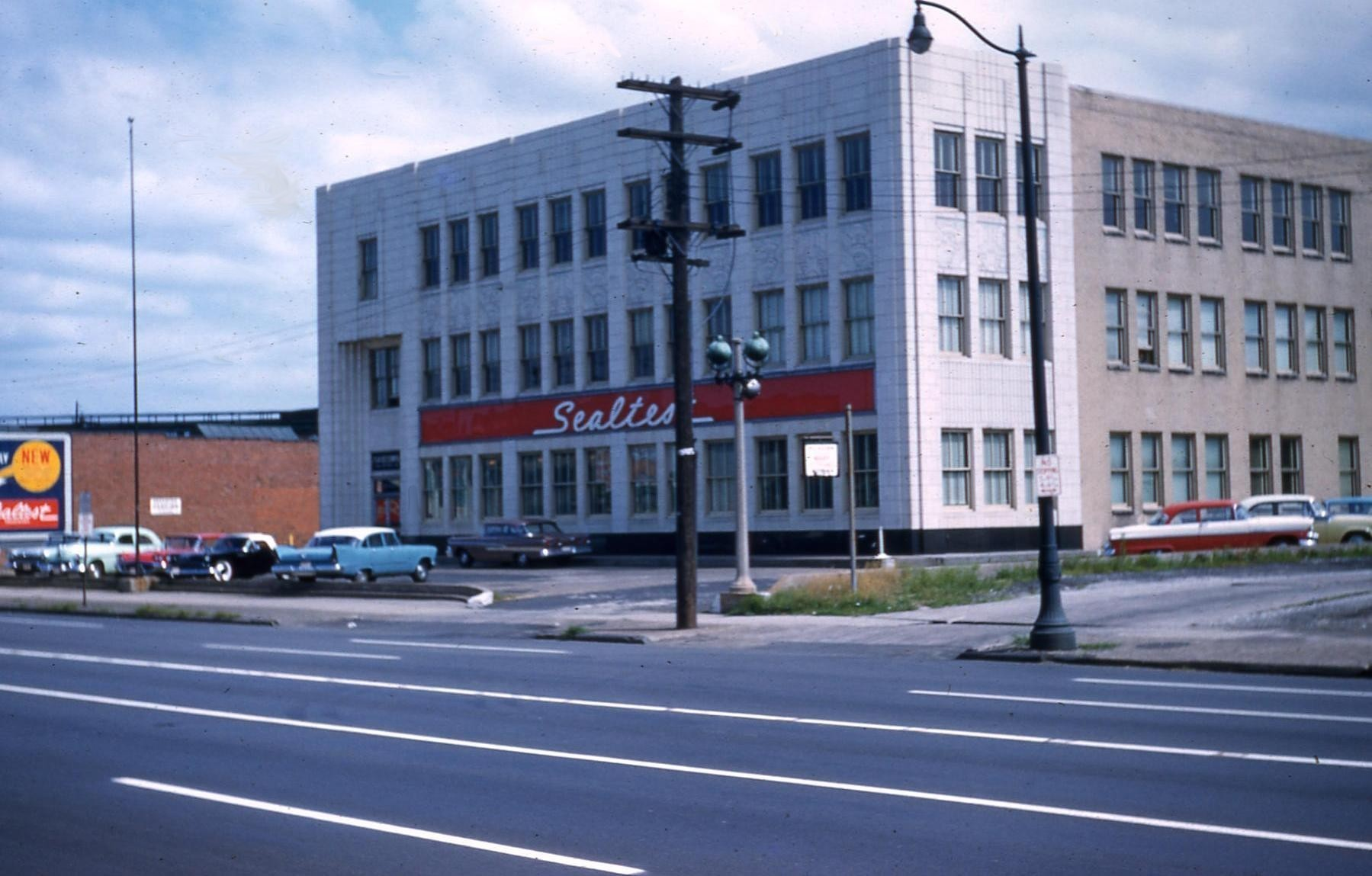 Sealtest Dairy building in the 1960s, Cleveland, Ohio.